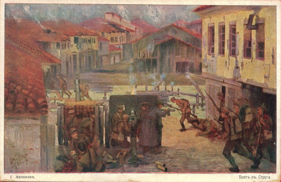 Battle of Struga by Gospodin Zhelyazkov